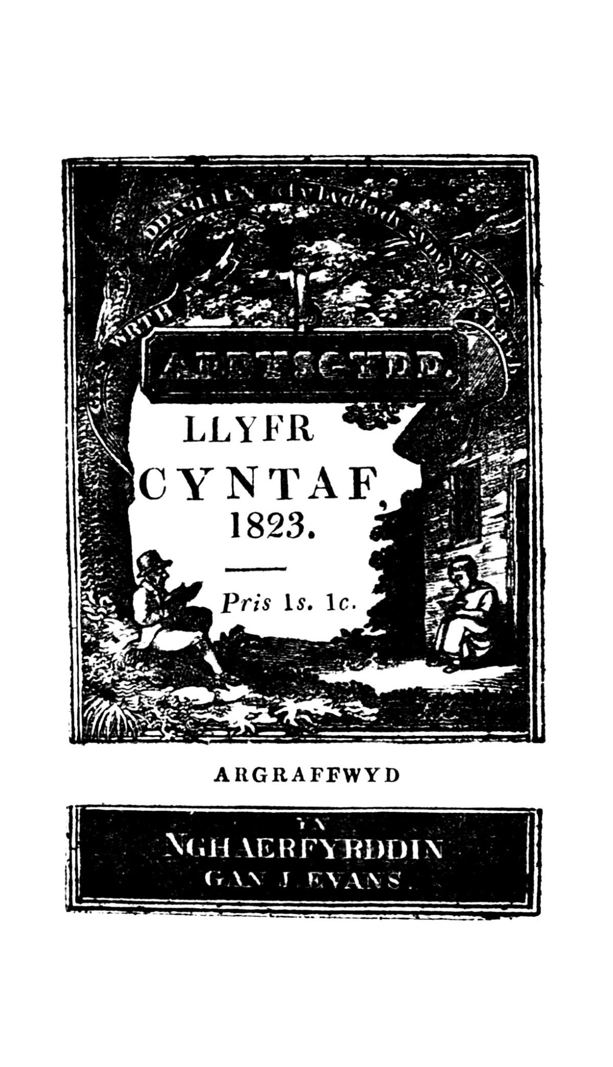 A monthly periodical that is an early example of a Welsh language children's periodical. Aimed at the children and young people of the Sunday school, the magazine was edited by the minister and hymn writer David Charles (1803-1880), and contains a number of his hymns, with its subject matter largely concerned with religious education.